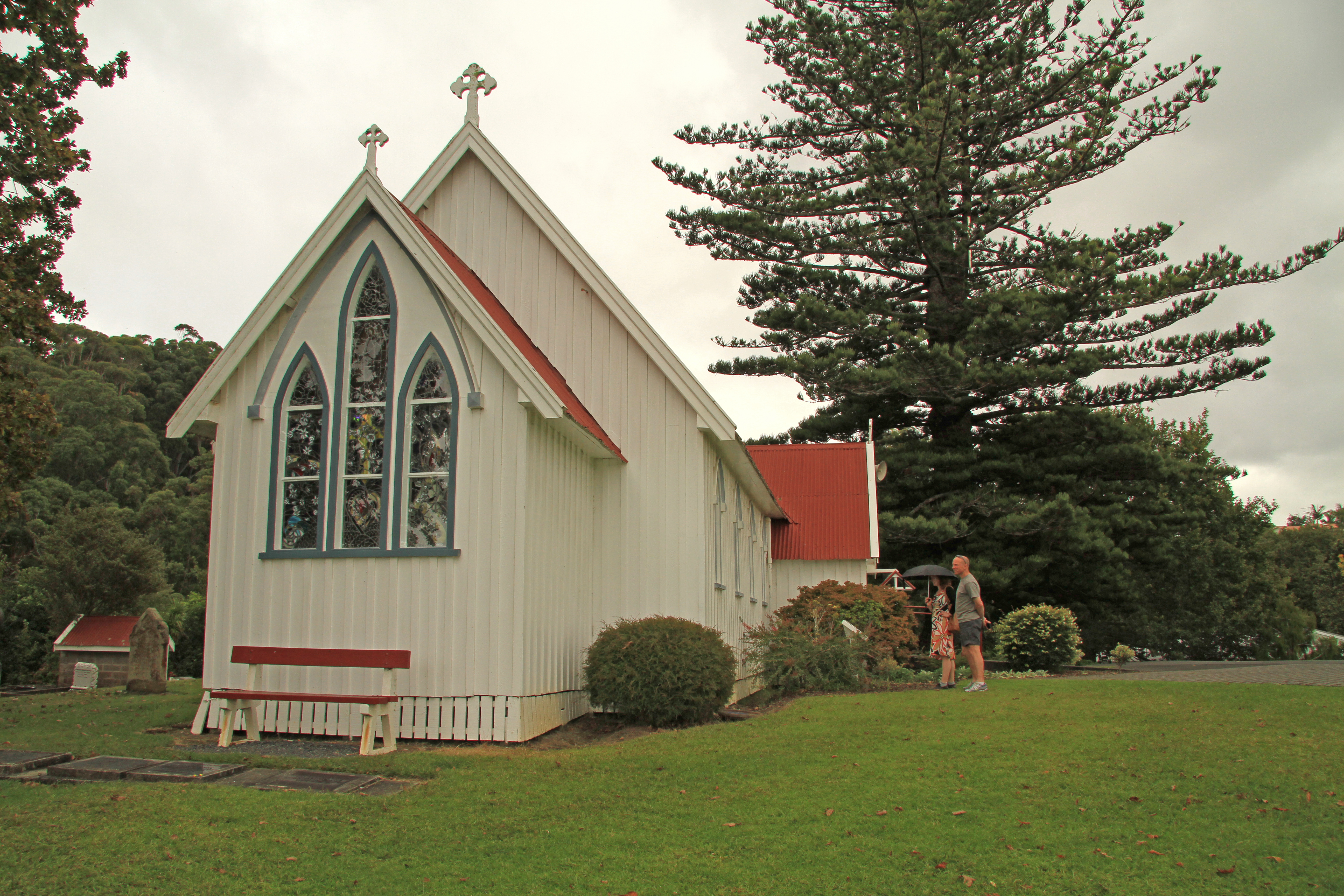 St James Anglican Church 2